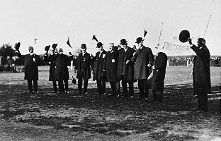 The Rutgers Queensmen football team that played the first official intercollegiate game in 1869, being honored on the field several years later.